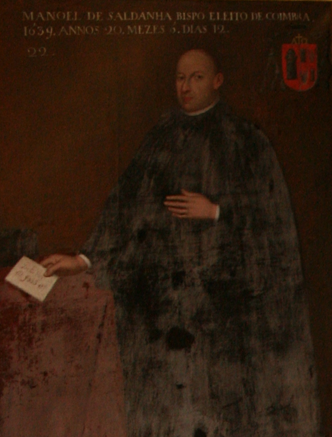 D. Manuel de Saldanha, bishop of Viseu and Rector of the University of Coimbra (1639-1659).